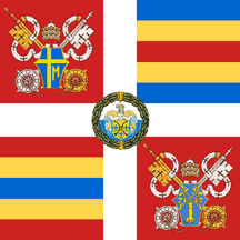 1978-1982 Flag of the Pontifical Swiss Guard of Vatican City, with commander Franz Pfyffer von Altishofen's emblem